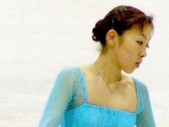 Fumie Suguri at the 2003 NHK Trophy.